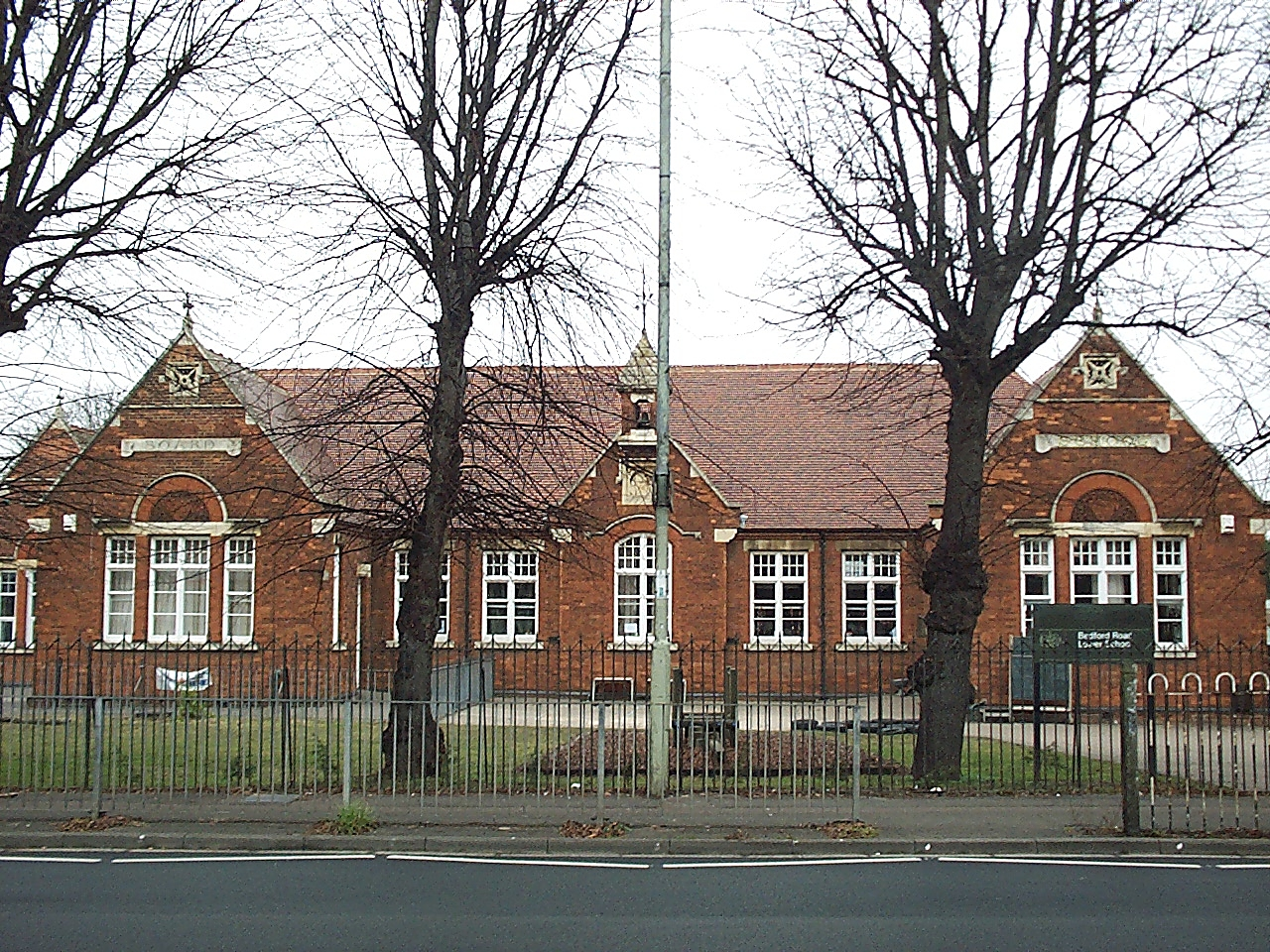 Bedford Road Lower School, Bedford Road, Kempston, Bedfordshire. The front of the School has plaques saying "Board" "School".